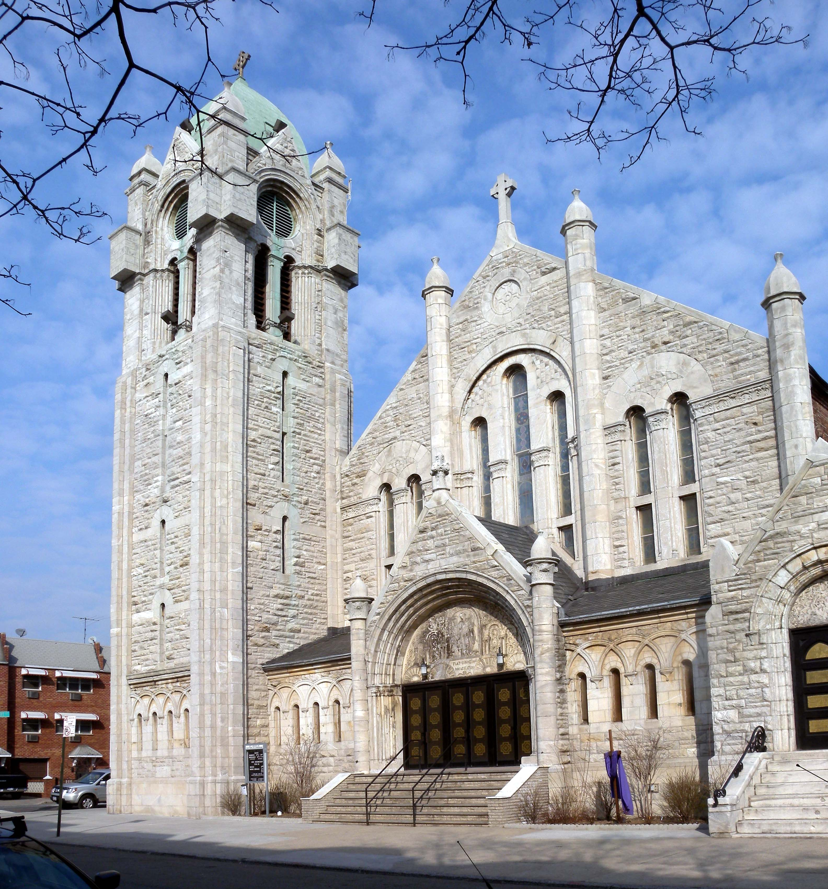 Looking northeast at Saint Cecilia's Catholic Church in Brooklyn and Herbert Street on a sunny afternoon.